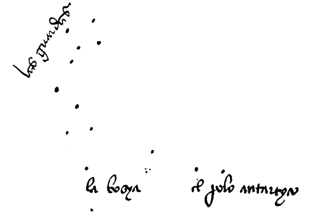 Celestial map of the southern hemisphere, including the first depiction of the Southern Cross (Crucis) constellation, by Mestre João Faras, astronomer-physician and passenger on the armada of Pedro Alvares Cabral, as sketched in his letter dated May 1, 1500 from 'Vera Cruz' (newly-discovered Brazil) to King Manuel I of Portugal. This letter was discovered and first published in 1843, in the Revista do Instituto Histórico e Geográfico Brasileiro, Rio de Janeiro, vol 5, nº 19, p.342-44. This image is reproduced in Luís de Albuquerque (1970) "A navegação astronómica" in A. Cortesão, 1970, editor, História da Cartografia Portuguesa, Coimbra, vol. 2, p.225-371.